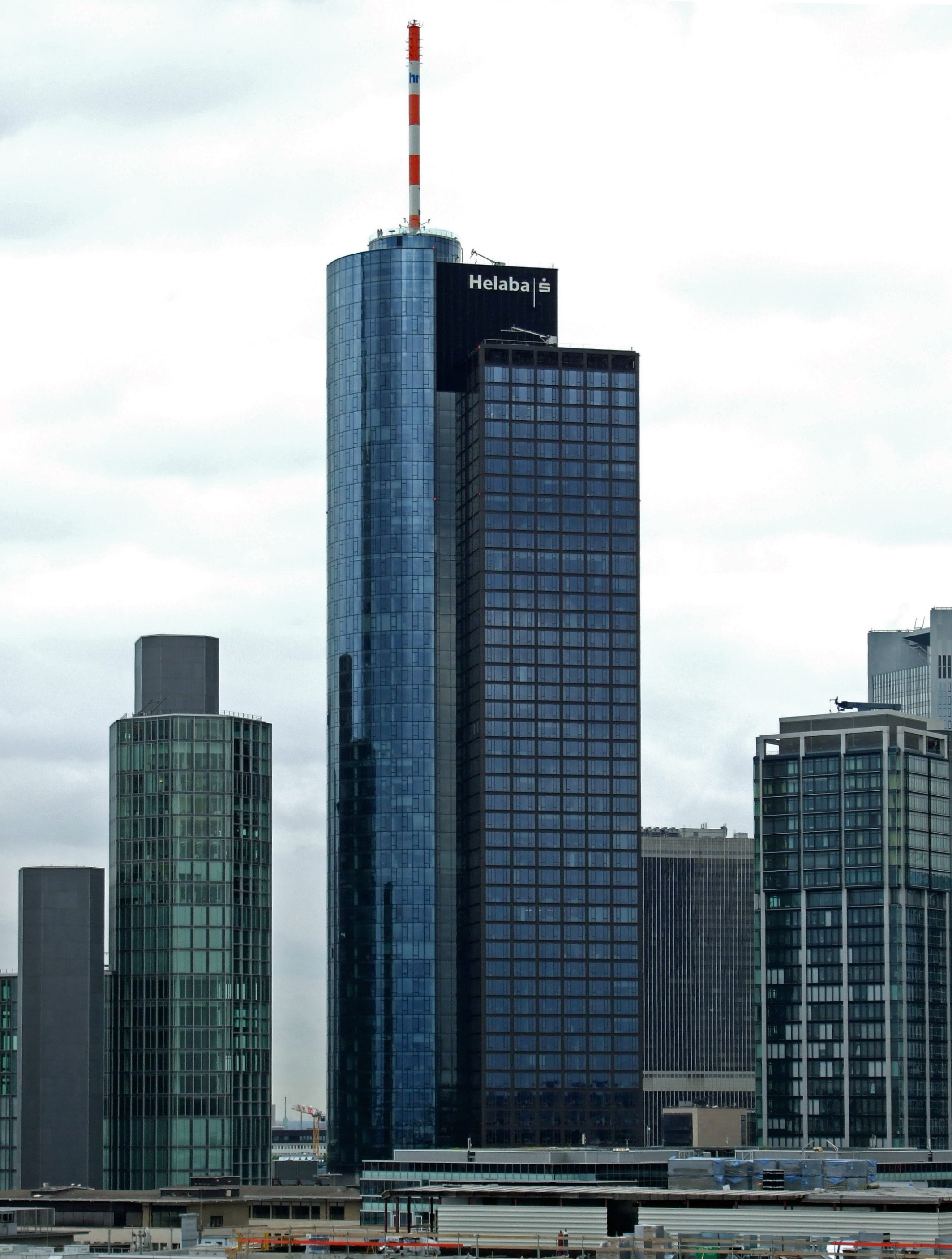 Maintower in Ffm